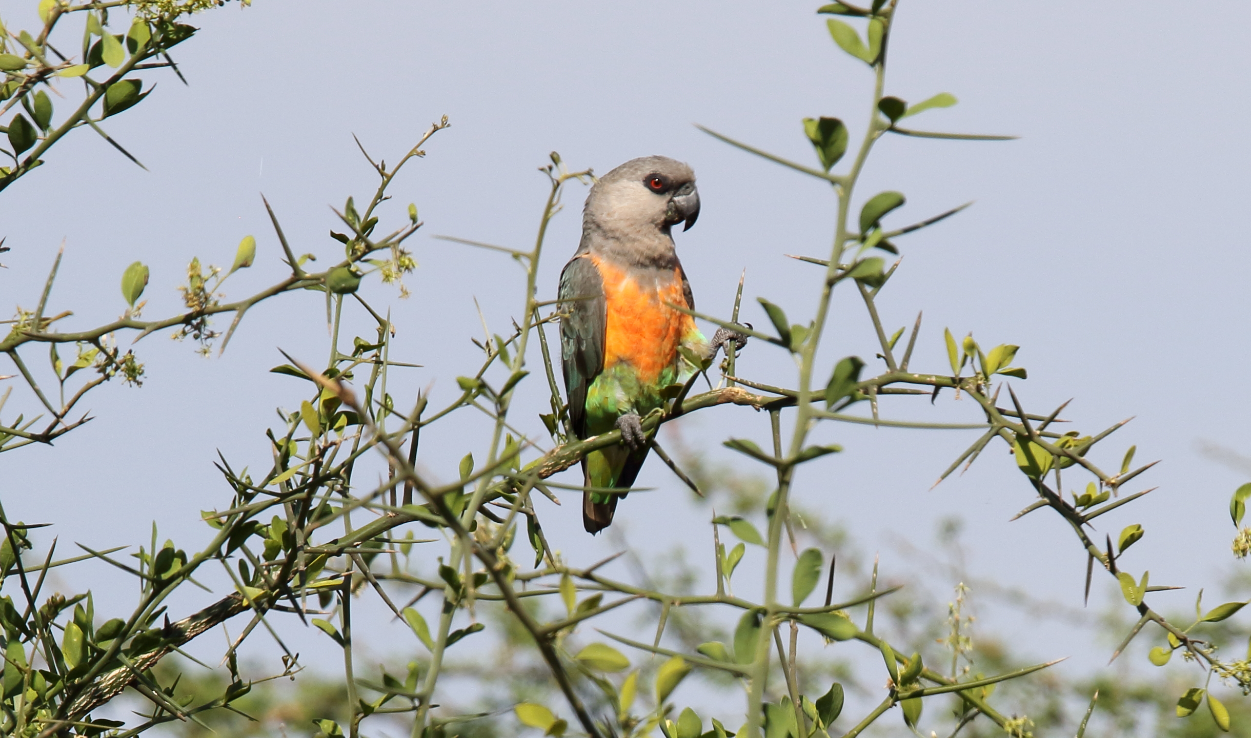 Red-bellied Parrot (Poicephalus rufiventris)